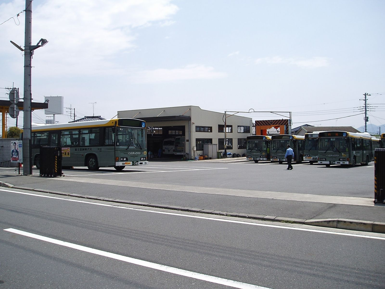 Fujikyu City Bus Fujinomiya Branch